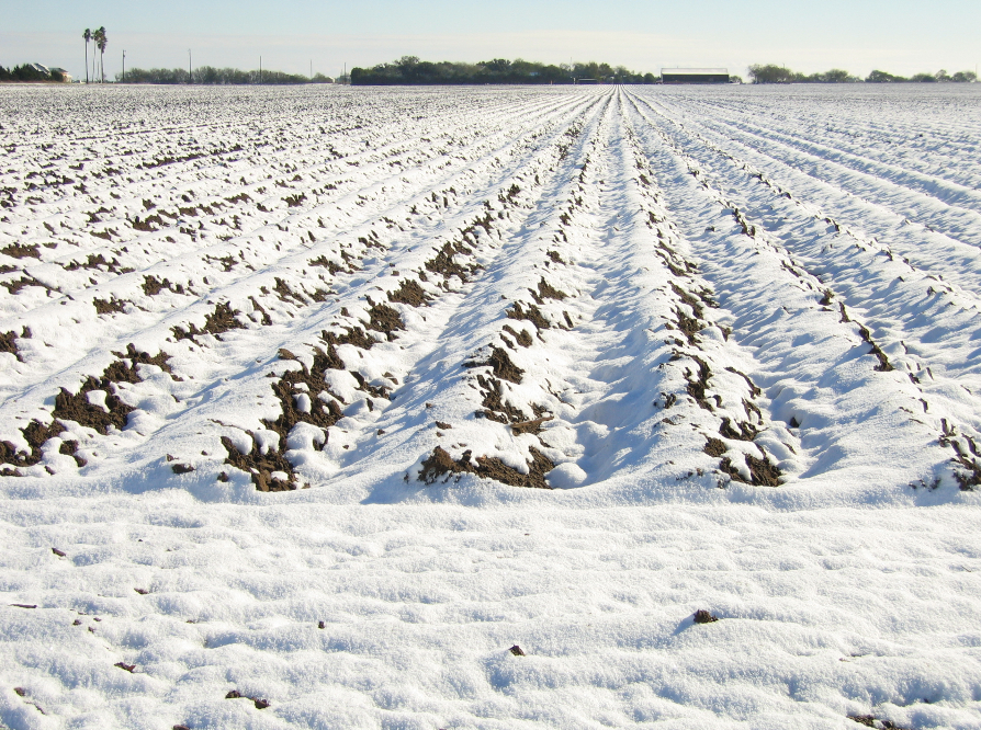 I took this photo on Christmas Day 2004 in a Cotton Field 40 miles north of Brownsville, TX. (Author: Edward Jackson)